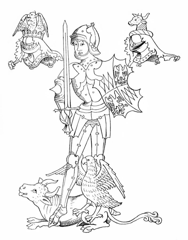 Richard Neville, 16th Earl of Warwick ("Warwick the Kingmaker"), from the Rous Roll. He displays on his shield the arms of Montagu quartering Monthermer. The bull's head is the crest of the Neville family, the eagle is the crest of Montagu. His other titles included 6th Earl of Salisbury, 8th & 5th Baron Montagu and 7th Baron Monthermer